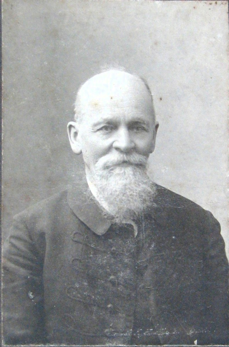 Kazimierz Girdwoyn photo portrait, dimensions 6 x 9 cm